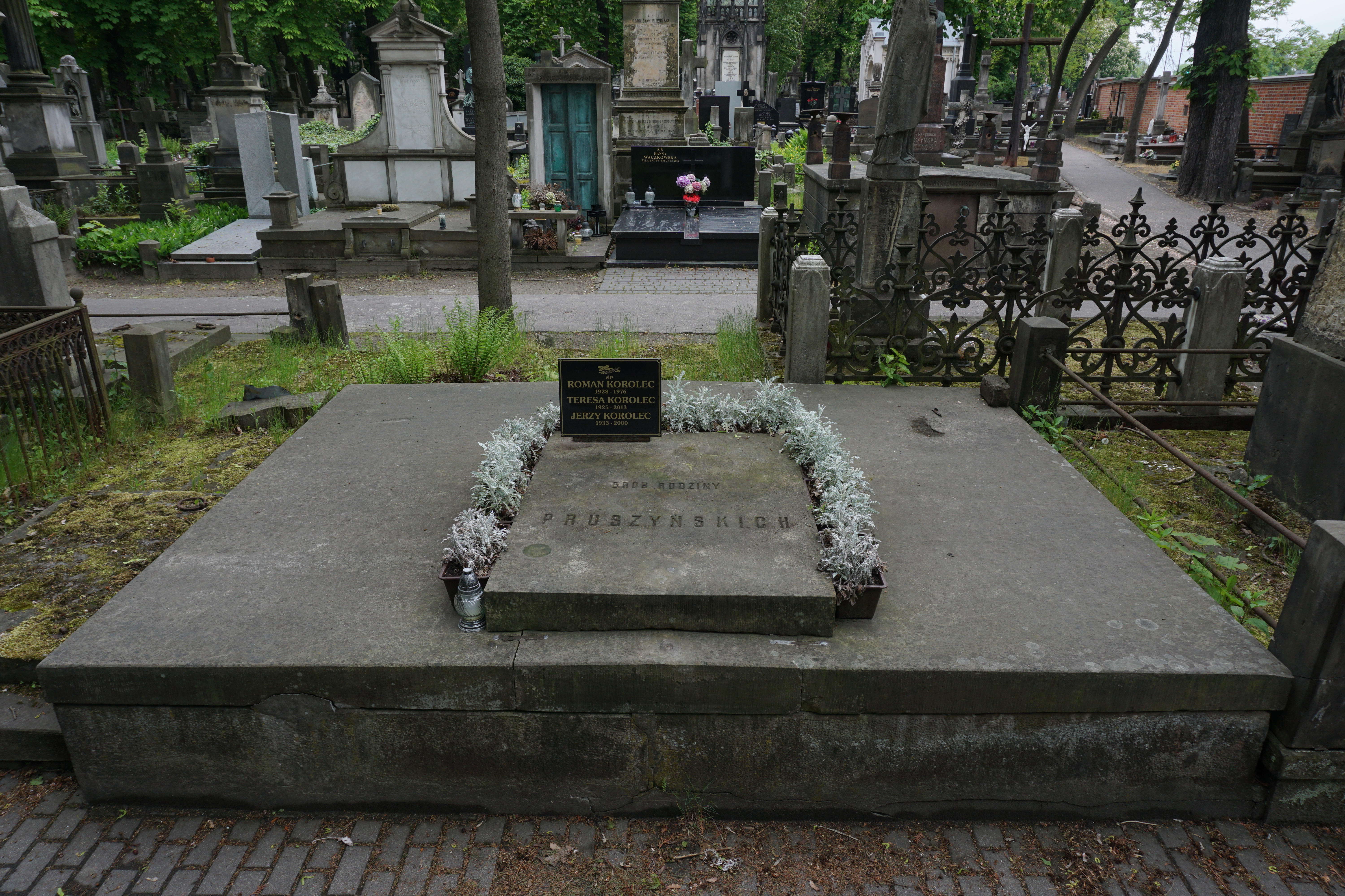 The grave of Jerzy Korolec at the Powązki Cemetery (section 19, row 5, grave 4, 5, 6)